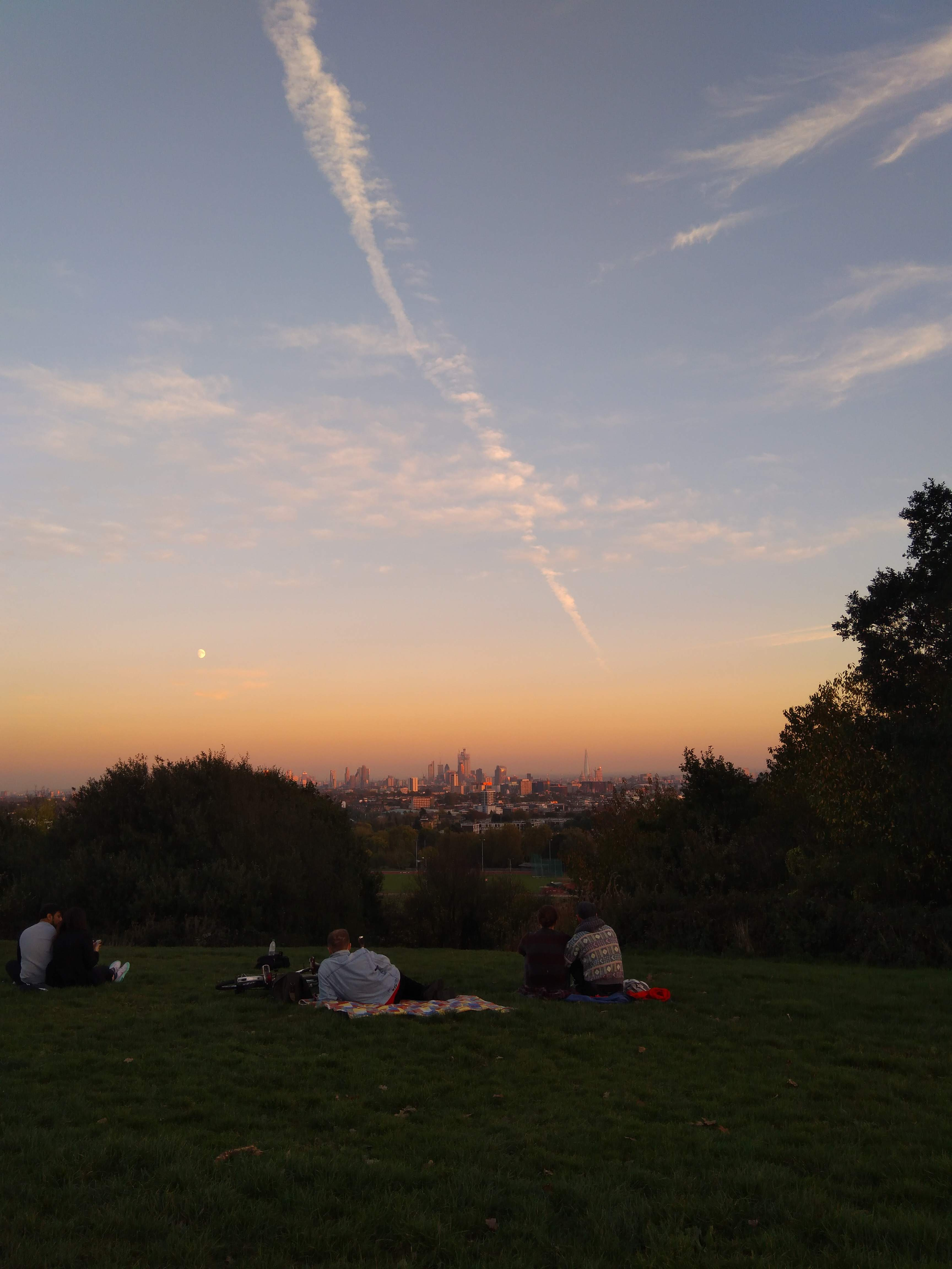 Picture of the view from Parliament Hill, Hampstead, during sunset.